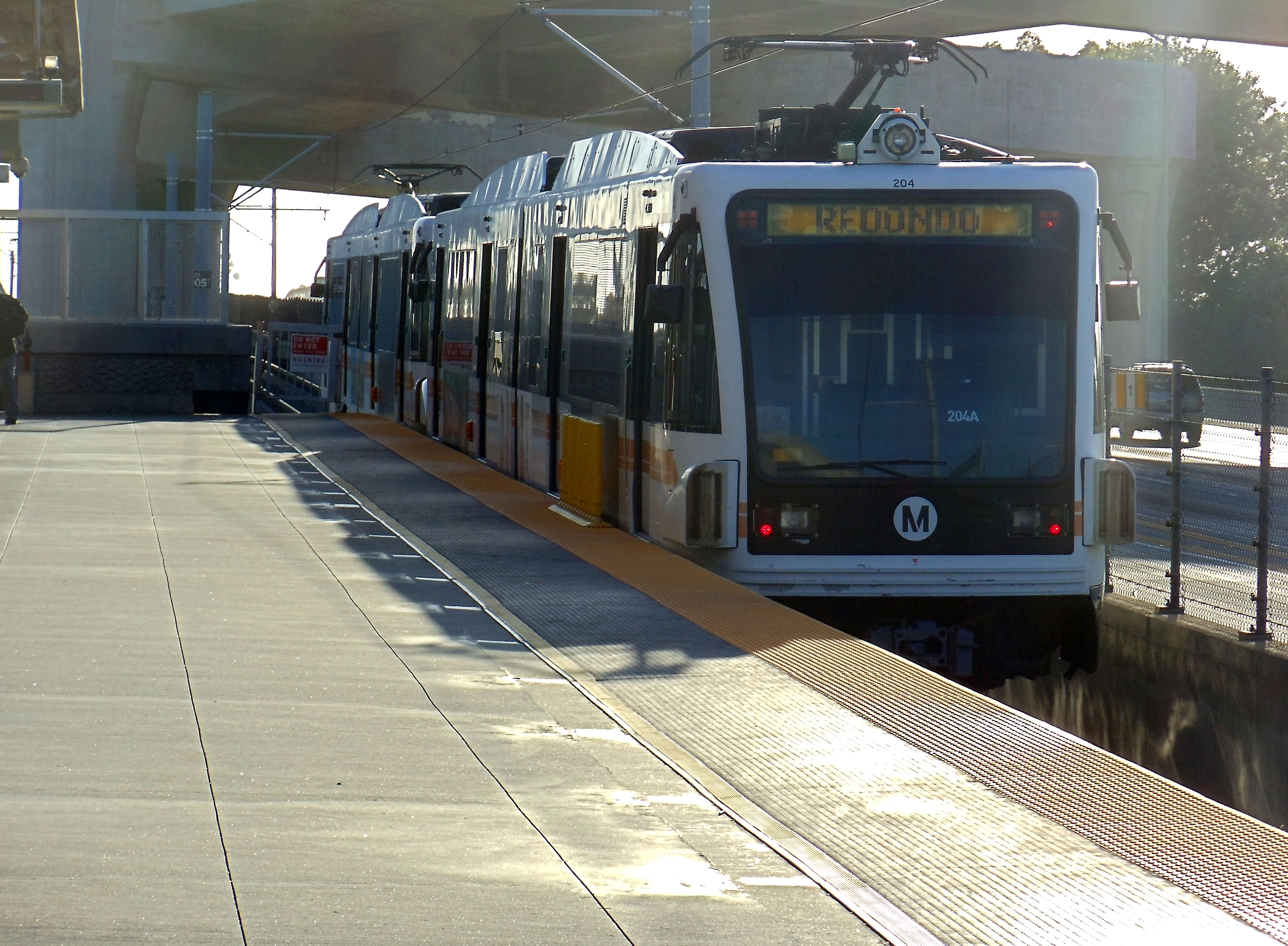 Westbound Metro Green Line train to Redondo Beach Station departing Harbor Freeway Station